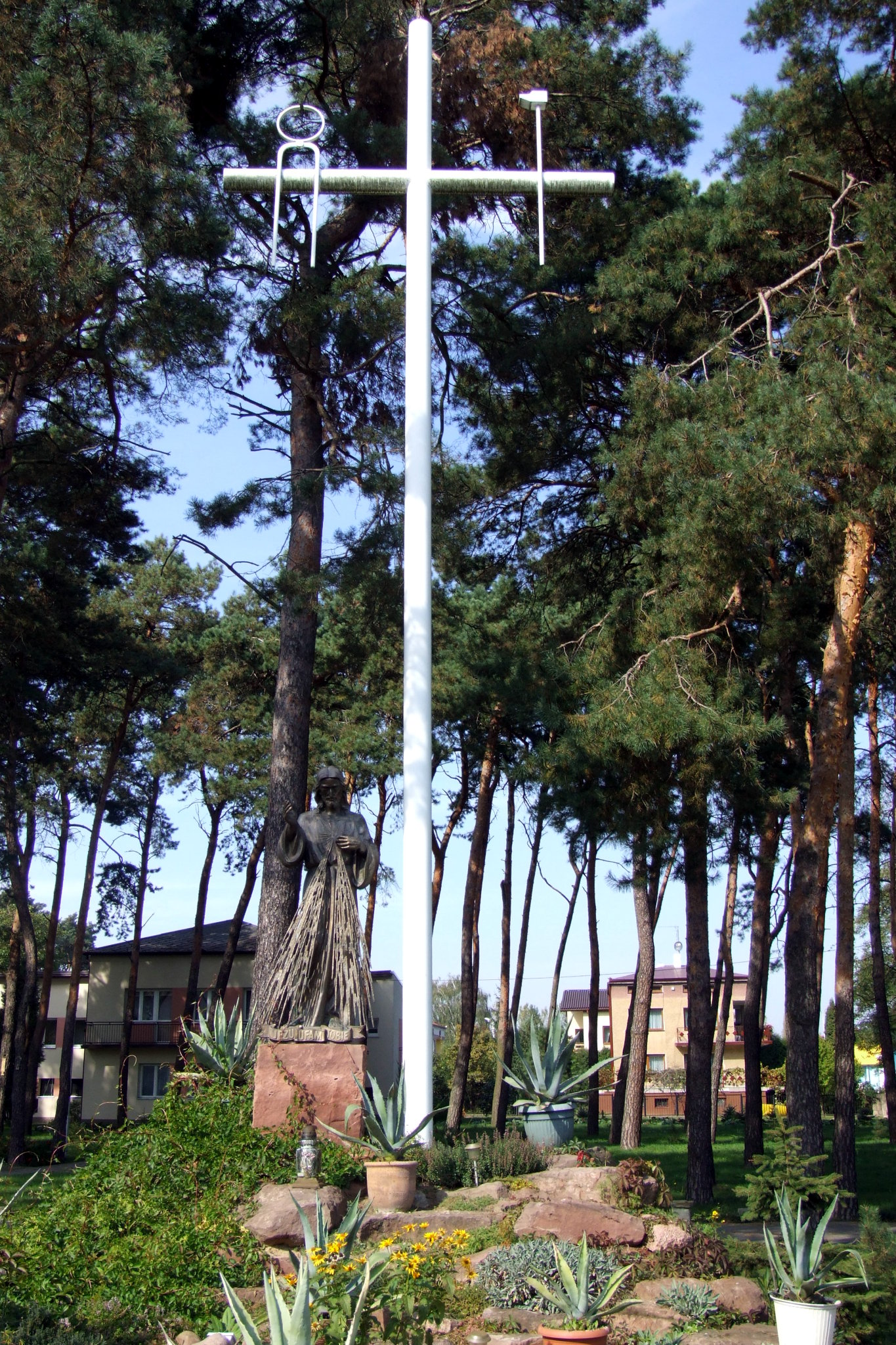 The La Salette cross with a hammer and pincer. The cross is located next to Our Lady of La Salette's Church in Ostrowiec Swietokrzyski, Poland.